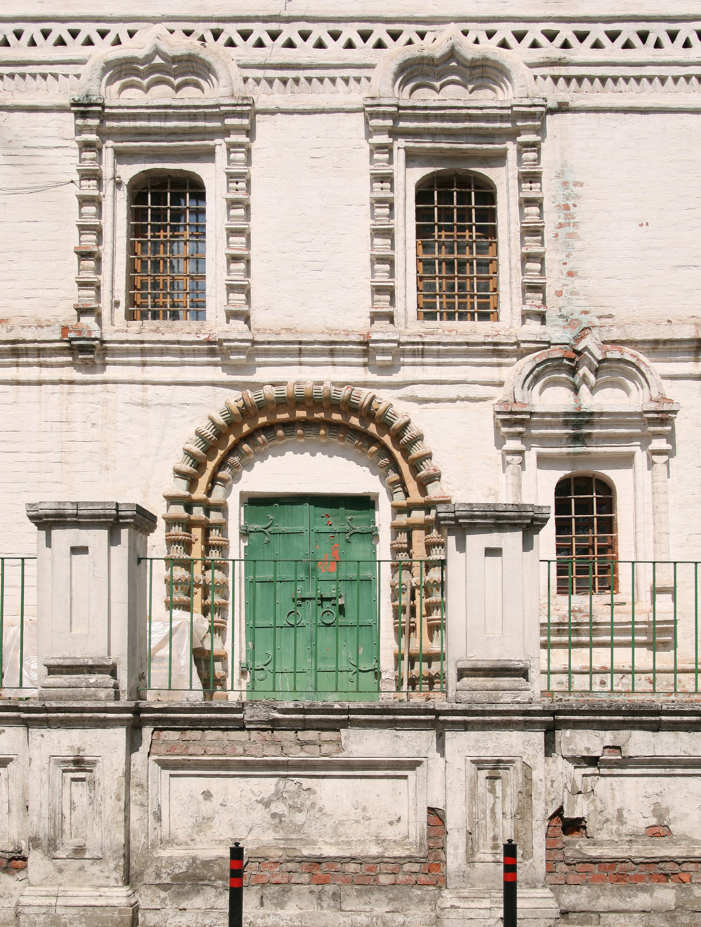 South facade of Church of Saint John the Baptist pod Borom, Moscow